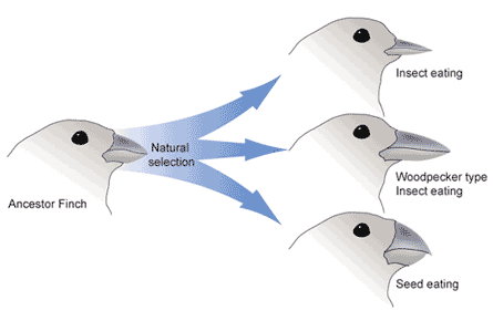 different variation of phenotypic due to environment